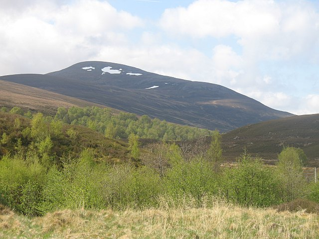 Allt na Feinnich and Meall Chuaich Birchwoods along the Tromie and Allt na Feinnich.